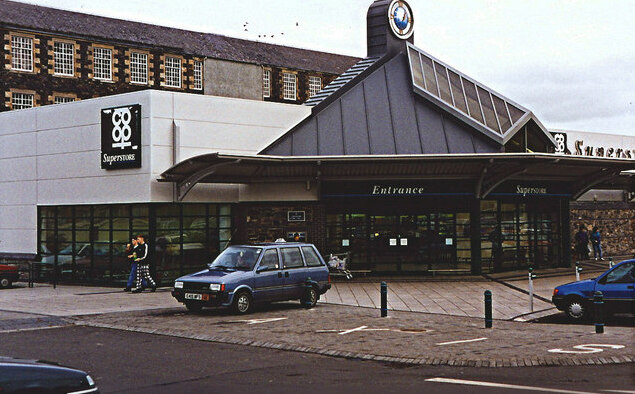 Galashiels Co-op Supermarket c1995 This photo was taken just after the Co-op rebuilt the frontage of their store which was attached to a former woollen mill building. Ownership transferred to Tesco later in the decade. The whole area has now been flattened and a new Tesco store is due to open on the site in early December 2006.